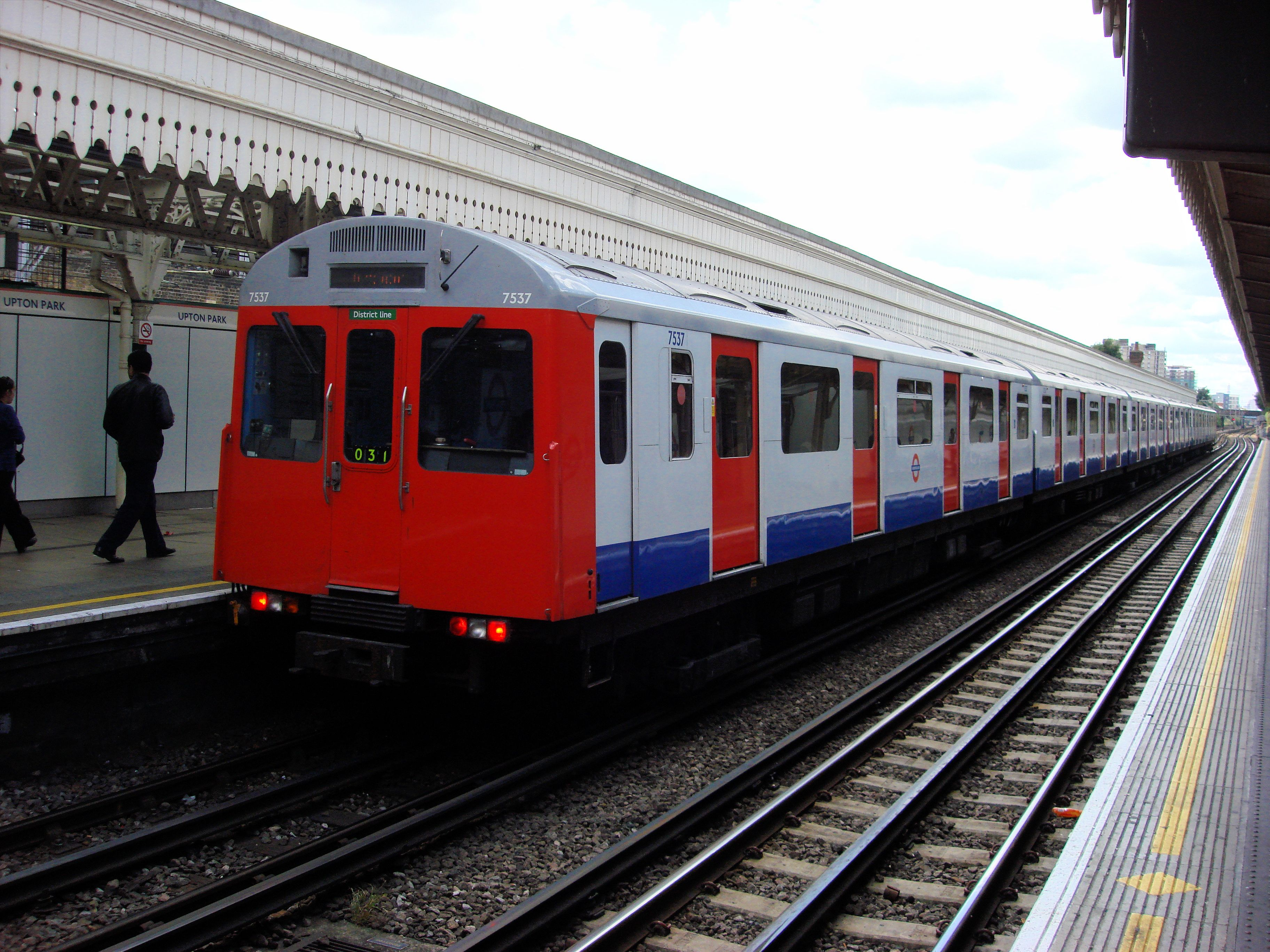 London Underground D78 Stock at Upton Park tube station